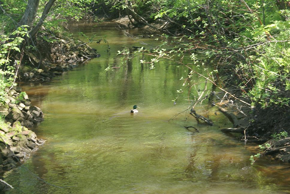 Champlain River in Trois-Rivières (Sector Saint-Louis-de-France)